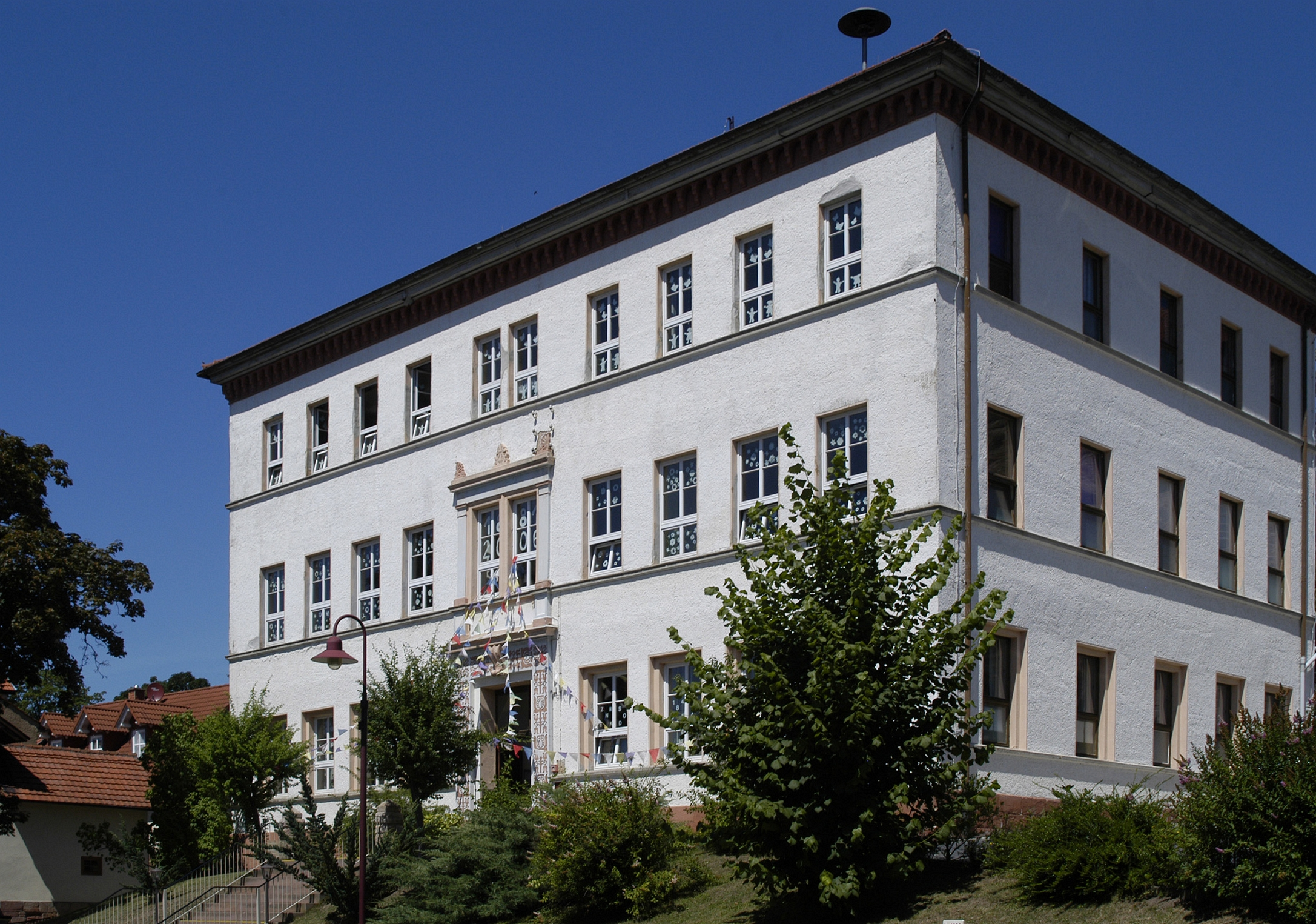 The school building was built in 1881. It now houses the primary school Stadtlengsfeld.